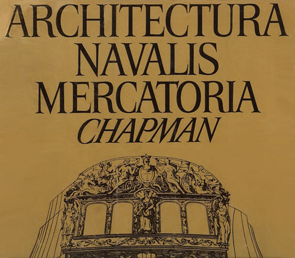 Firat page of Architectura Navalis Mercatoria by Fredrik Henrik af Chapman, published in 1768, shows in LXII sheets all contemporary types of ships